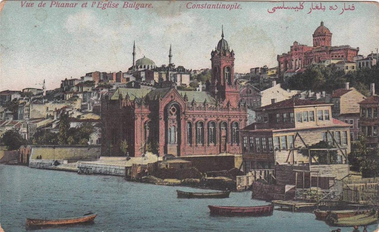 Postcard showing a turn-of-the-century view of the Constantinople (Istanbul) neighborhood of Fener (Phenar) where the Greeks had to move after the Turkish conquest of Constantinople. In the forefront: the Bulgarian Orthodox Church of St. Stephen; atop the hill: the Patriarchate of Constantinople. During the last decades of the 19th century, the Greeks were deserting the Fener for the more prosperous, westernized districts of Galata and Pera across the Golden Horn. Postcard issued c. 1905-1910.